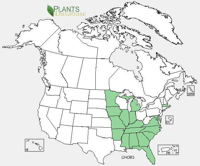 Distribution map of Chelone obliqua — endemic to the Eastern United States.